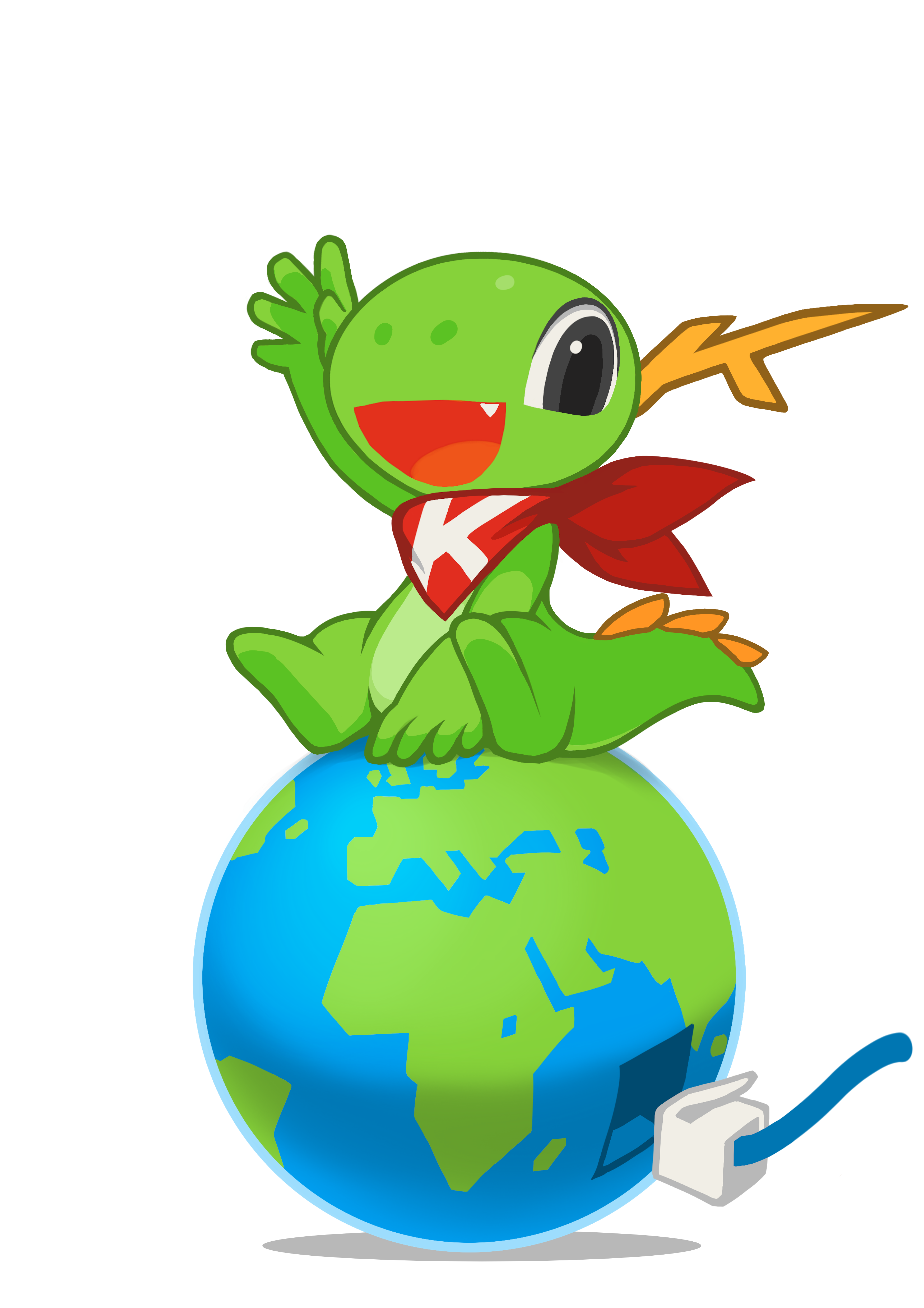 KDE mascot Konqi for network applications.